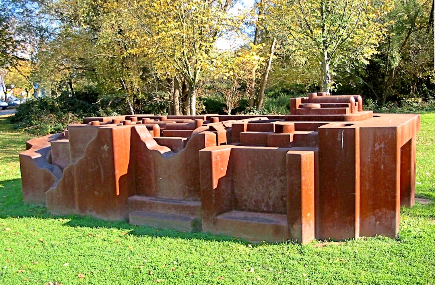 Stahlsymposiumm Dillingen "Akropolis" by Eduardo Paolozzi